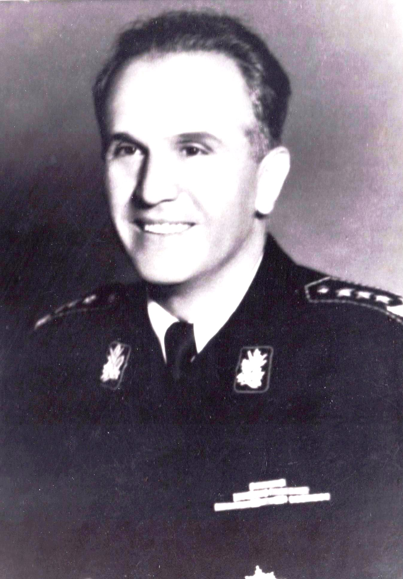 Mihailo Apostolski (1906 - 1987), People Hero of Yugoslavia from the Republic of Macedonia This media file is produced by Wikipedian in Residence in Category:Wikipedian in Residence at DARM in 2016.